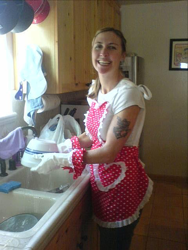 A woman washing dishes at a kitchen sink in 2007. She is wearing gloves and an apron. She looks towards the camera and smiles.